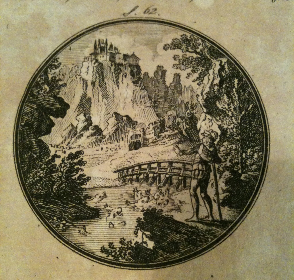 Engraving from Johann Burka, in Riebenzahl, Prague, 1796